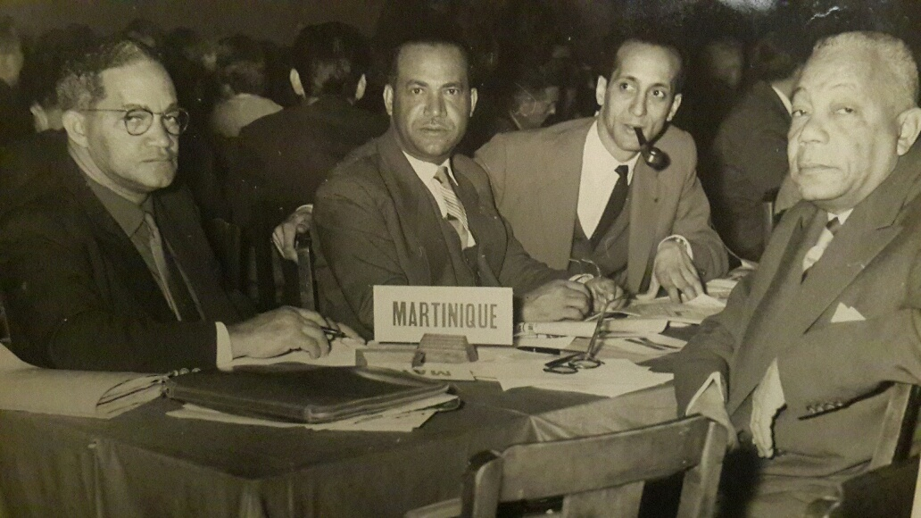 Francois DUVAL